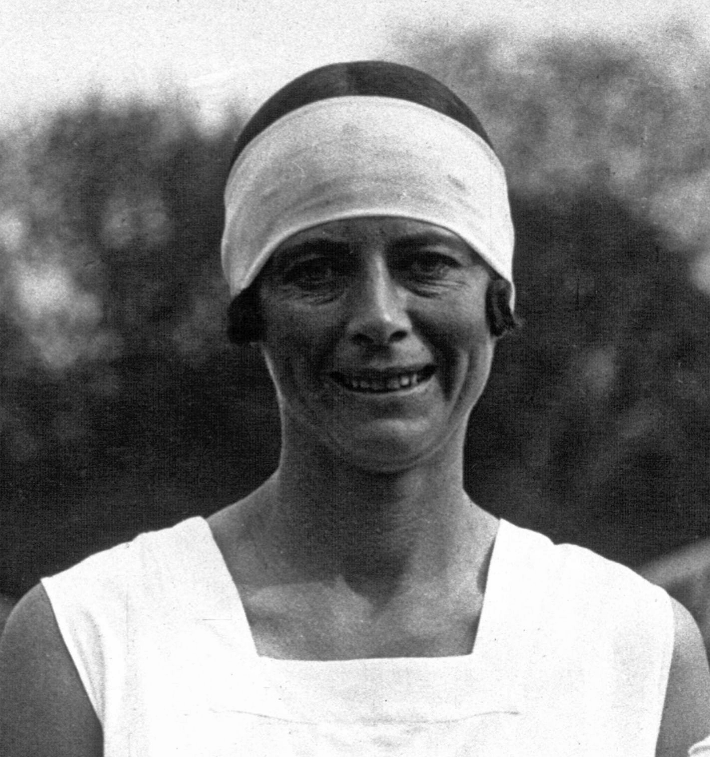 British tennis player Phoebe Holcroft Watson at the 1928 French Championships at the Stade Roland Garros in Paris